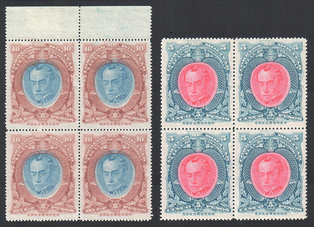 Colombian state Bolivar 1882, Sc. #35-36, mint blocks of four.